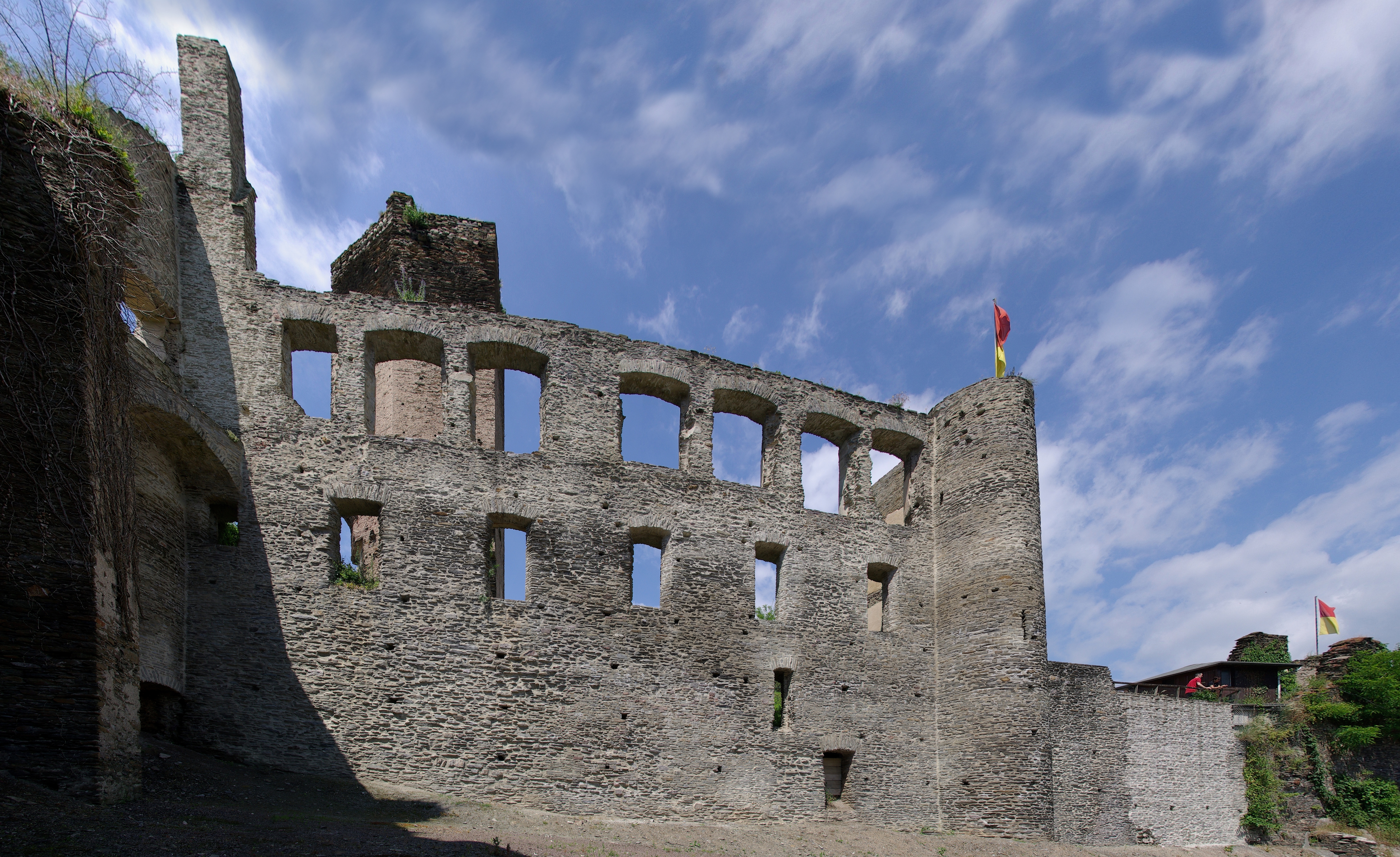 Germany, Metternich Castle at the river Mosel